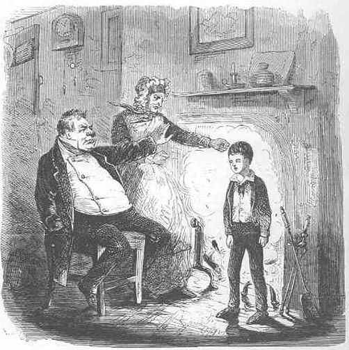 Great Expectations, Mr Pumblechook taking over Pip's education, by John McLenan